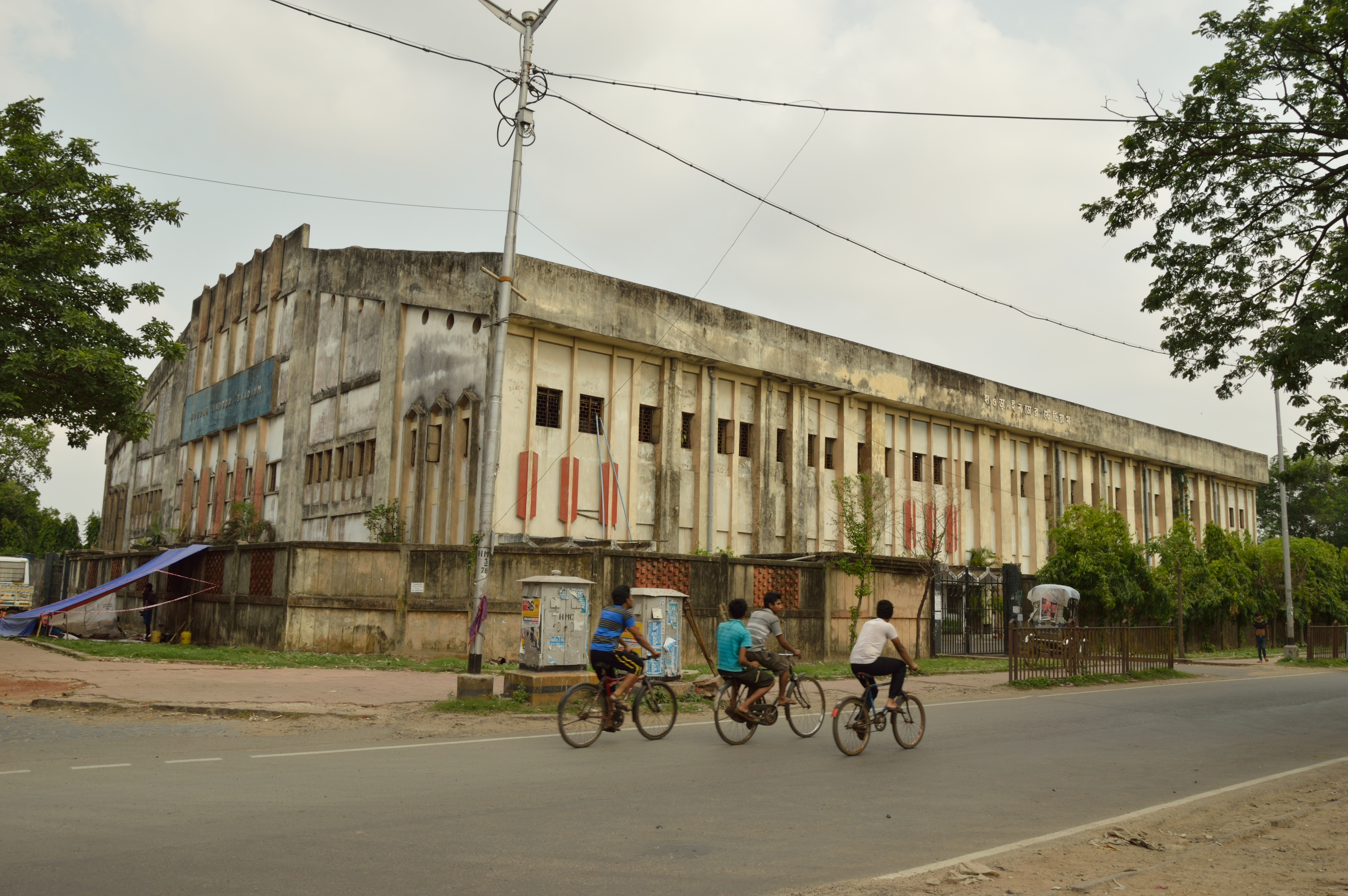 Photographed in Howrah.